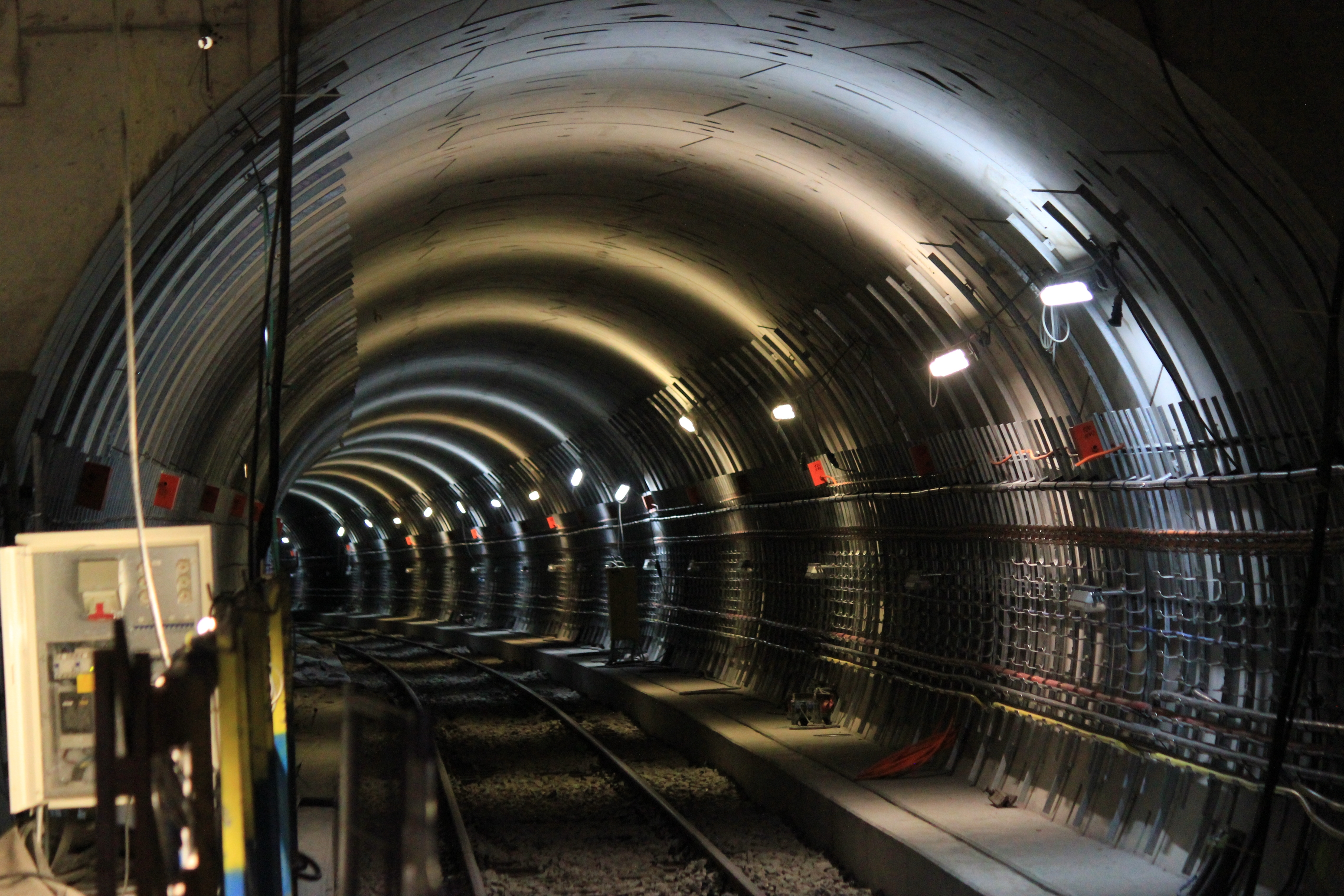 "Open Doors Day" at construction site of the new underground station "Unter den Linden" in Berlin, Germany